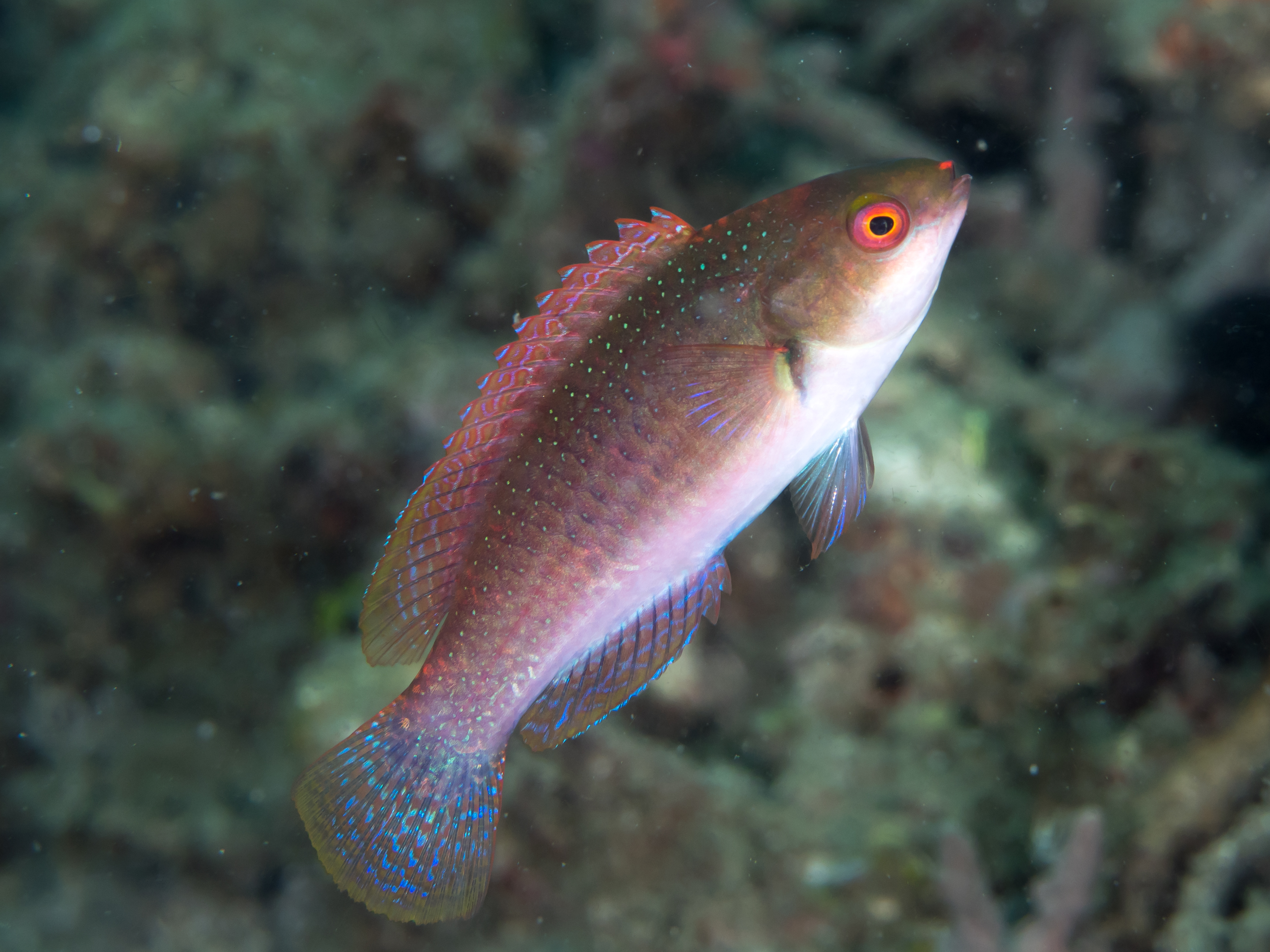 Lembeh, Indonesia - Blueside wrasse (Cirrhilabrus cyanopleura)